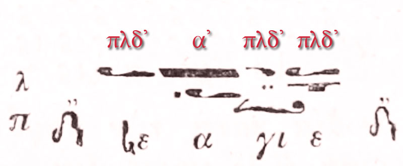 Medieval enechema of echos plagios tetartos